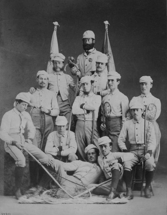 Photograph, Montreal Lacrosse Club, QC, 1867, William Notman (1826-1891), Silver salts on paper mounted on paper - Albumen process - 14 x 10 cm